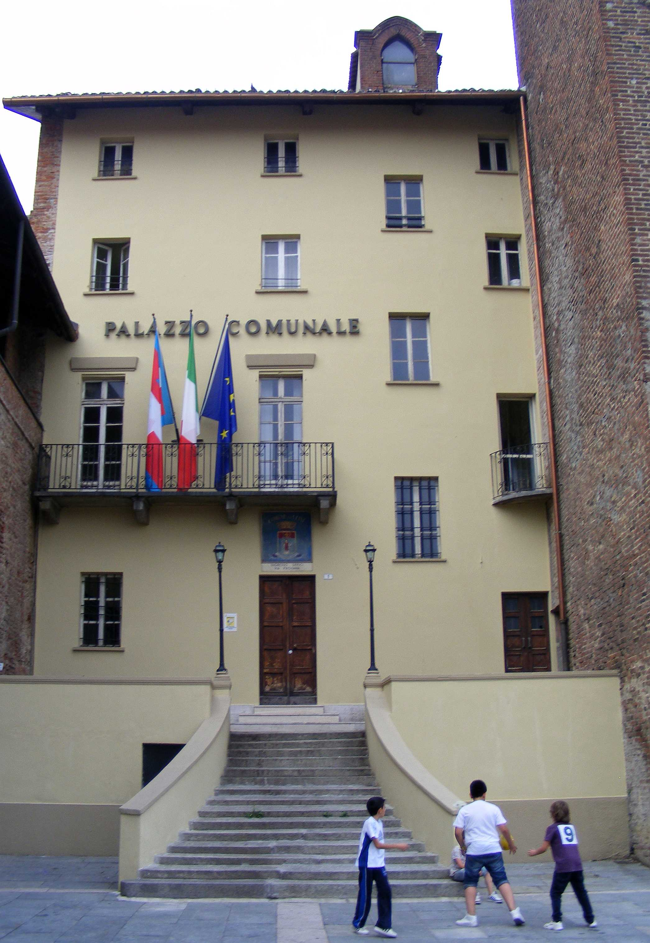 Leinì (TO, Italy): town hall